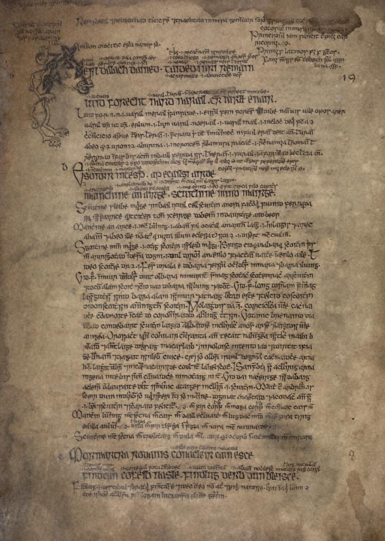 This page includes the calendar entries for January 1st and 2nd of the Martyrology of Oengus. Pairs of two bold lines represent quatrains of four six-syllabic lines for each day, i.e. each of the bold lines includes two lines of the original text. The rest of text is composed of glosses and notes that elaborate the entries. Literature: Pádraig Ó Riain: The Tallaght Martyrologies, Redated, Cambridge Medieval Celtic Studies, 20, Winter 1990, p. 21-38. Whitley Stokes: The Martyrology of Oengus the Culdee, Henry Bradshaw Society, 1905